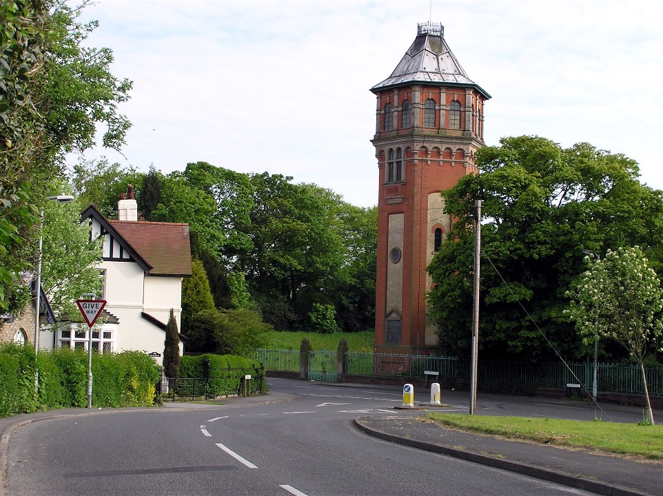 view looking south from Summer Hill